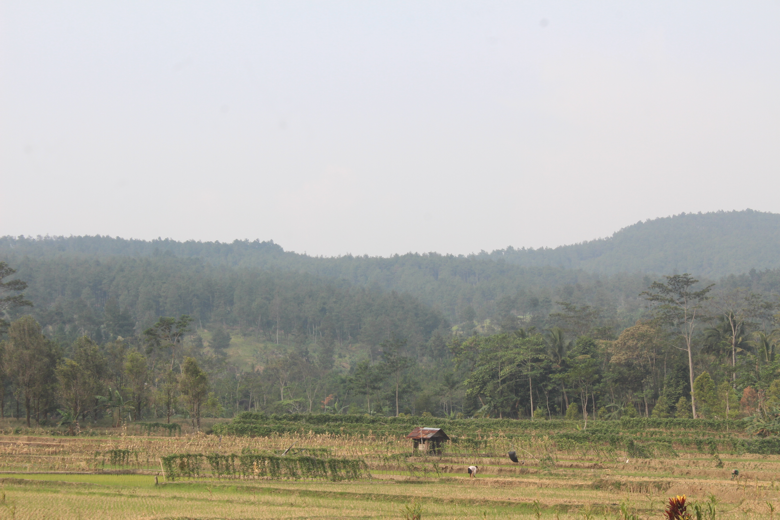 Alam Desa Beluk